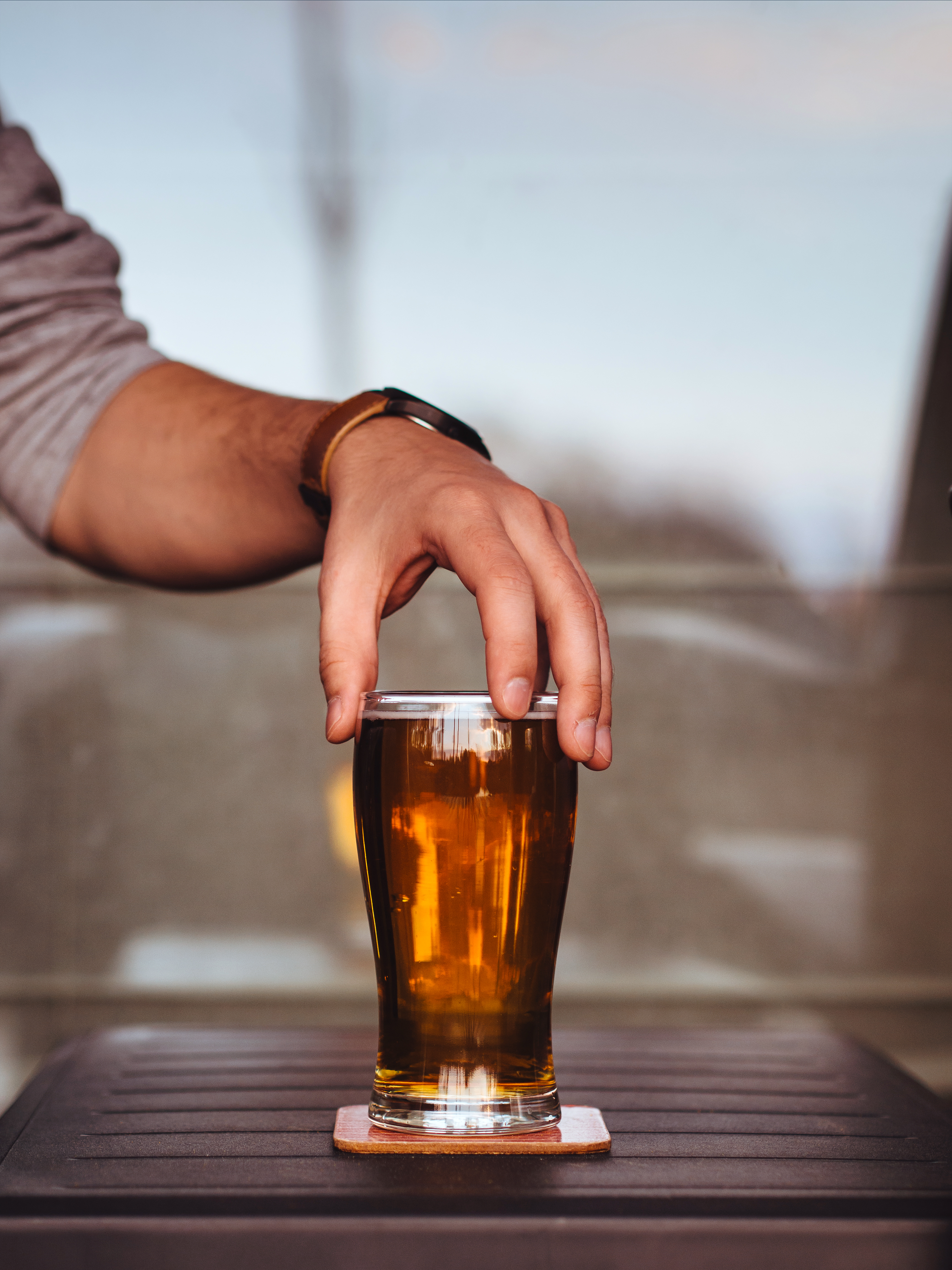 Pawel Kadysz 2016